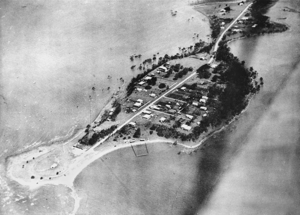 Aerial view of Wellington Point, Queensland, 1929. Aerial view of Wellington Point, Queensland showing Moreton Bay resorts from the air in 1929.